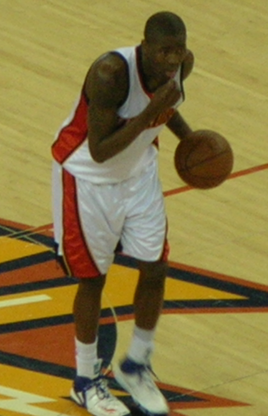 Golden State Warriors point guard Jamal Crawford at a home game against the Phoenix Suns. The Suns won 154-130.